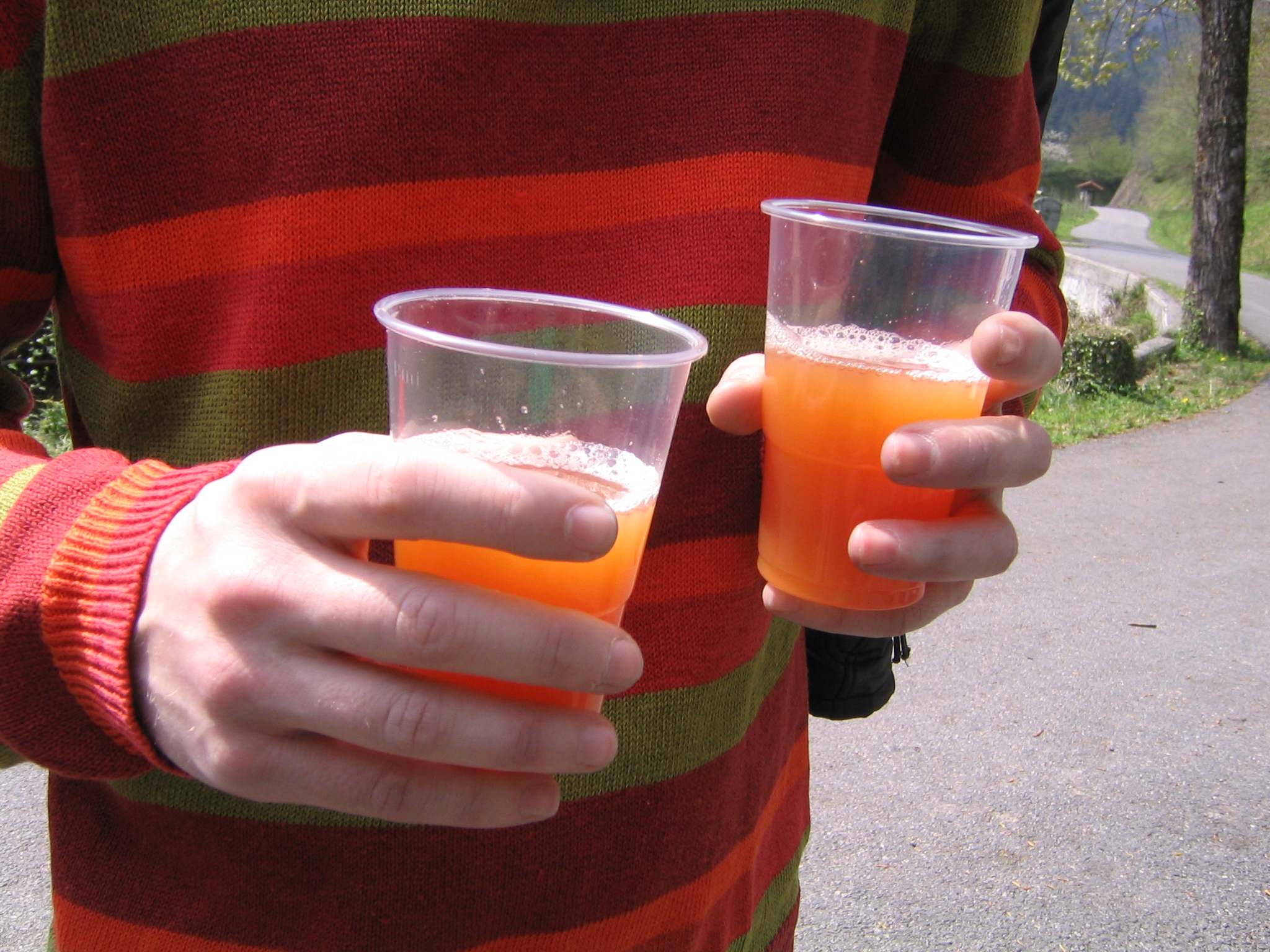 Representative photograph of the Botellón, holding a couple of plastic glasses of Sangría.